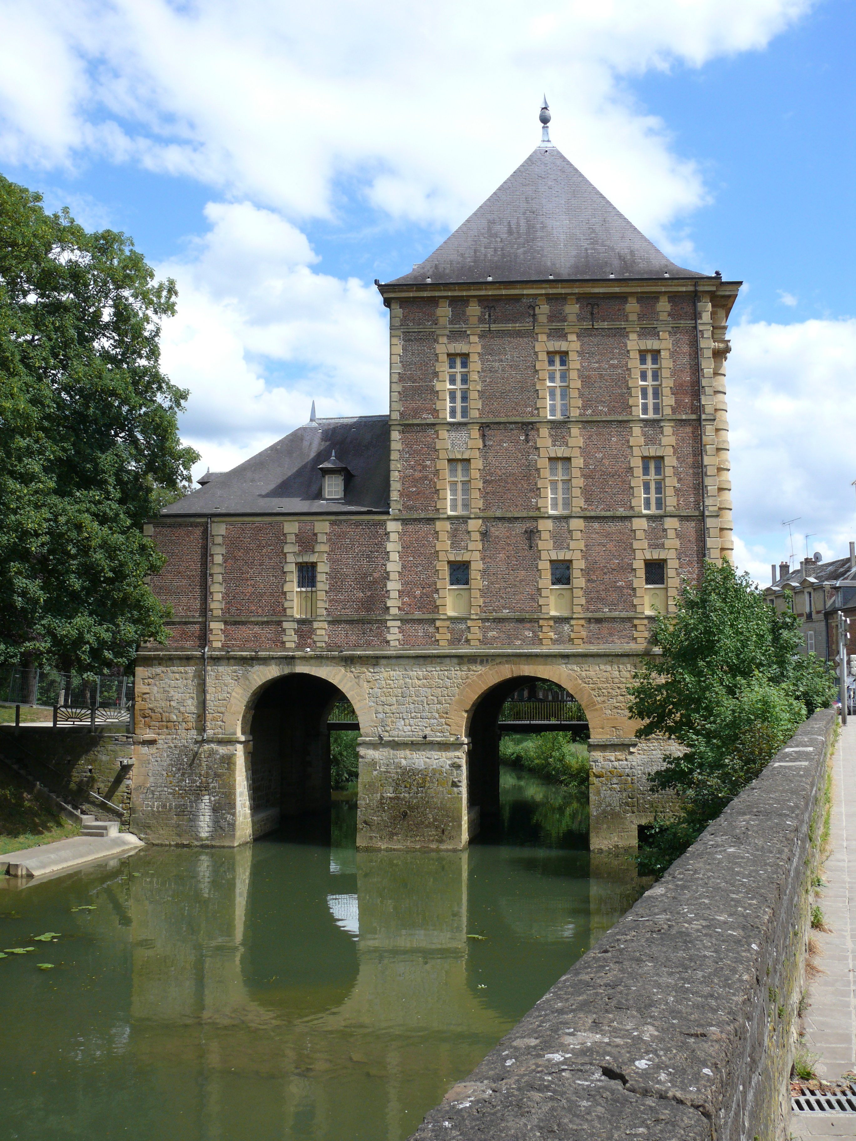 Musée Rimbaud, Charleville-Mezières. . Arthur Rimbaud (1854–1891) was a French poet, born in Charleville. The Musée Rimbaud (Rimbaud museum) is located in the old water mill (Le Vieux Moulin) to the north of the town.